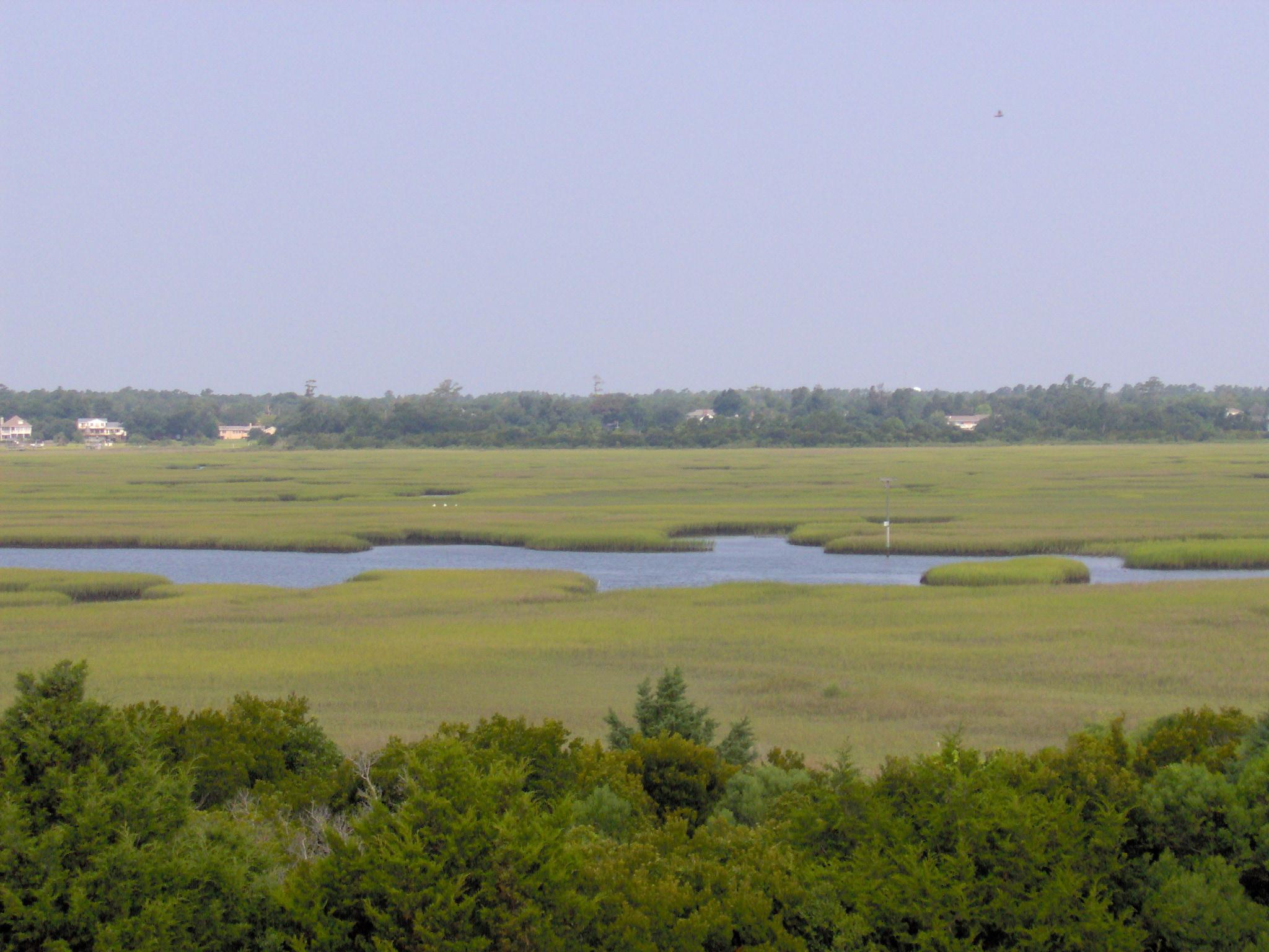 A picture of the marshland on Figure Eight Island as seen from the beach side of the island, picture takin from a 3rd story deck. Credit: Chris H.